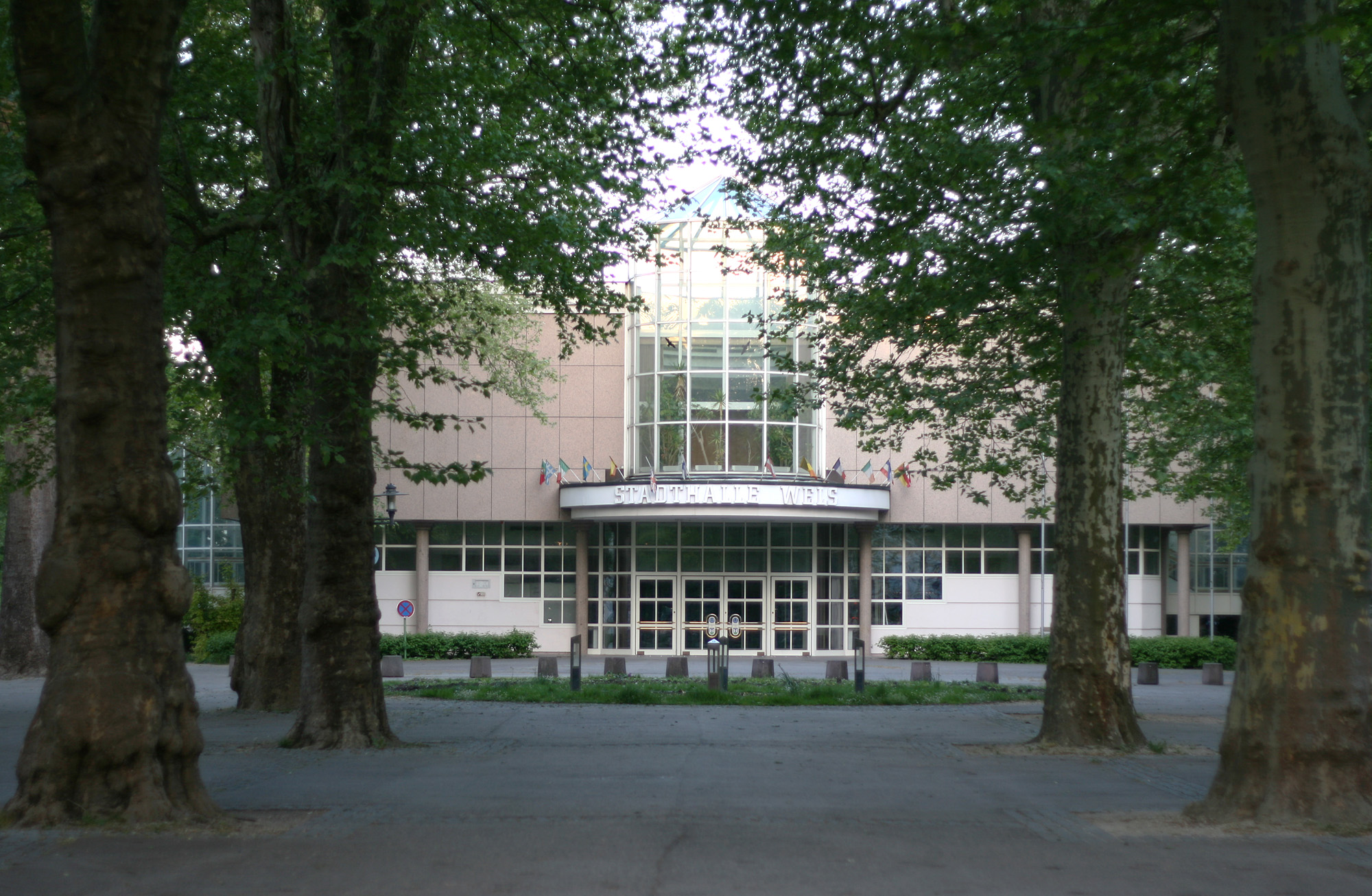 Front der Stadthalle Wels aufgenommen vom Haupteingang aus. / The front fo the Town-Hall viewed from the main entry.